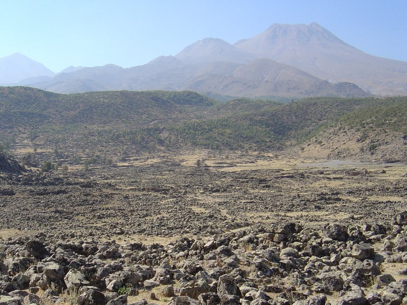 The valley of Mokisos (Viranşehir) with the Hasan Dağı